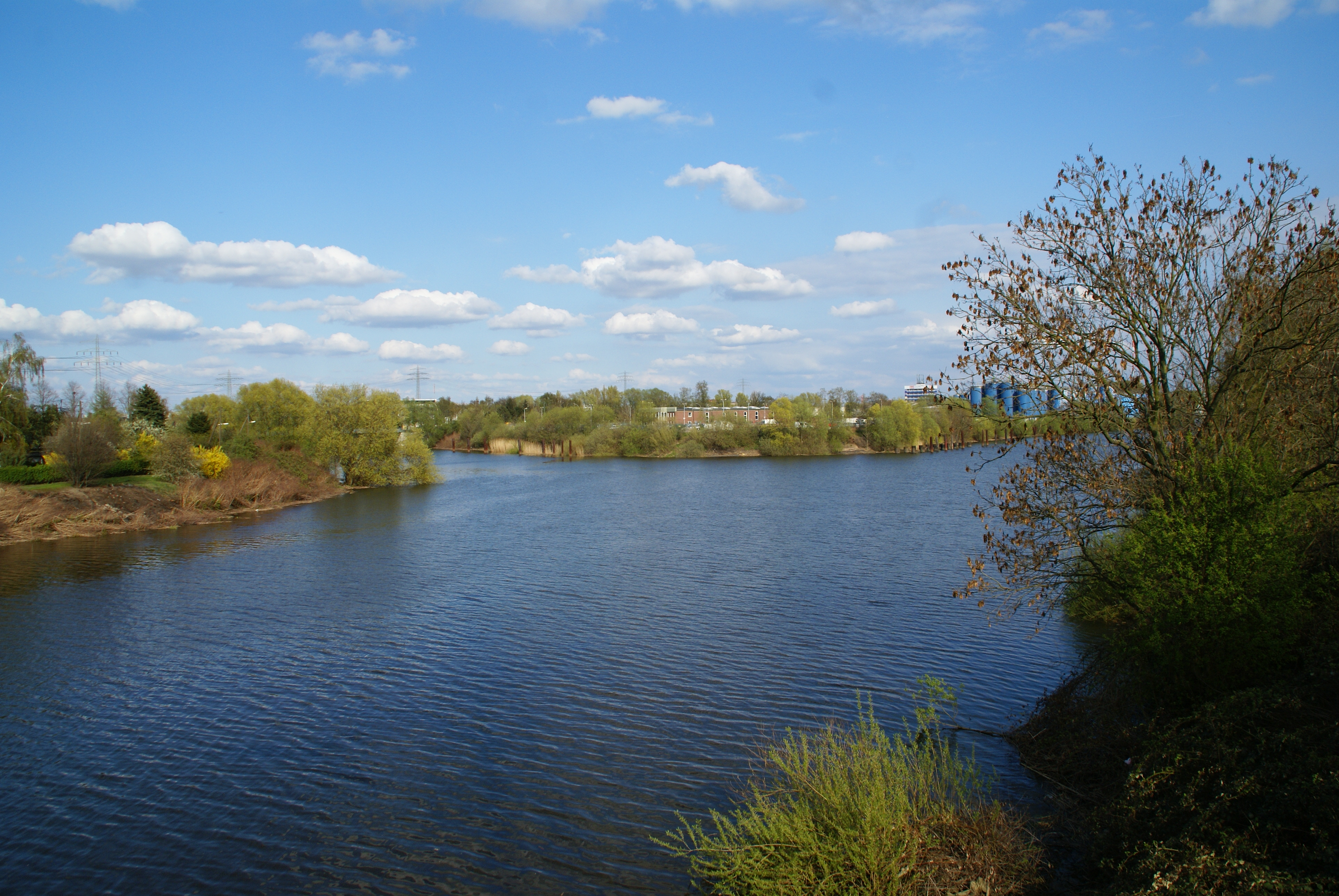 Hamburg (Billbrook), Germany: The Tidekanal (left) meets the Moorfleeter Kanal